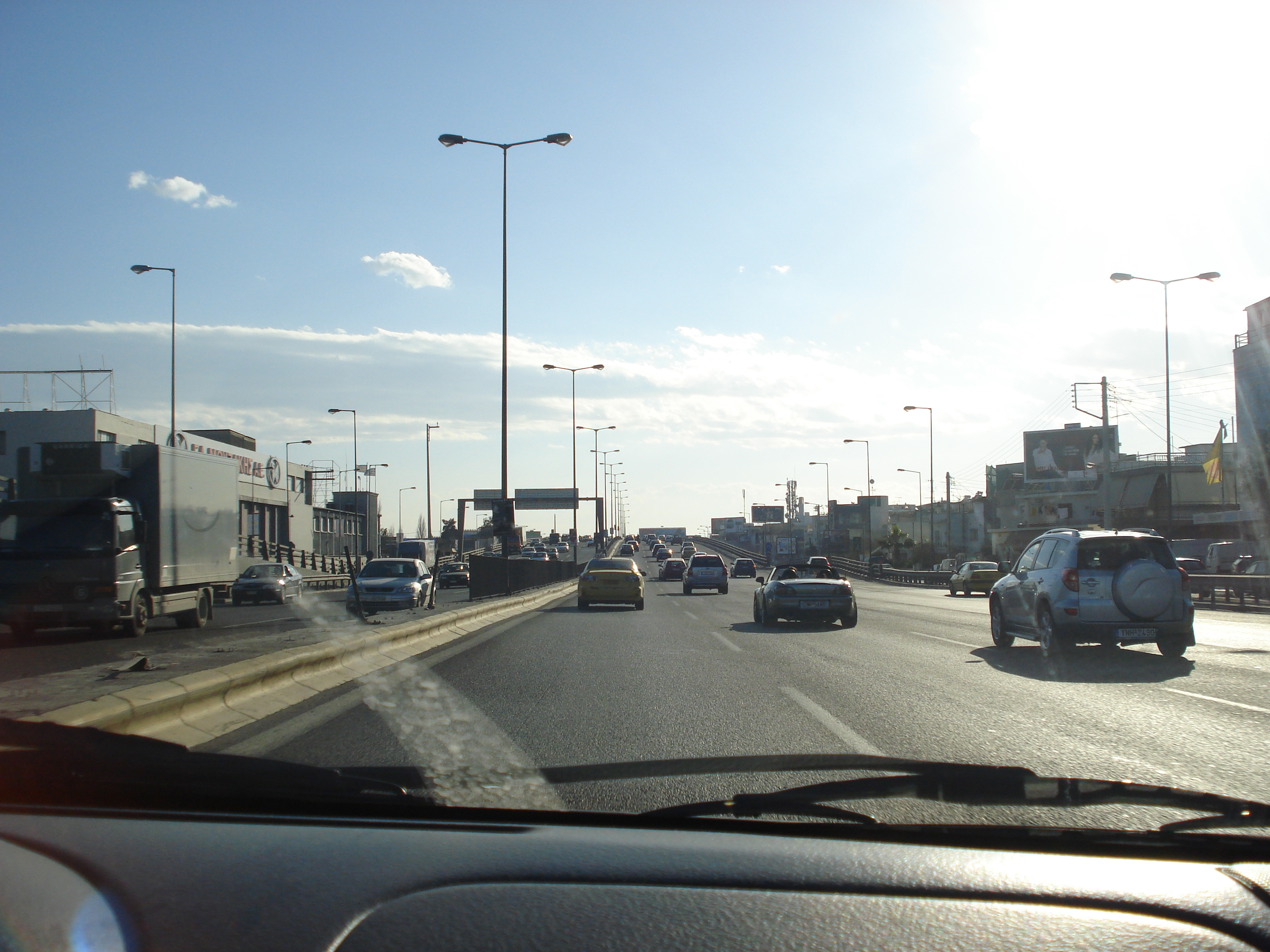 National road 1 and motorway 1 (ATHE, European Road 75) in Athens, direction to Faliro (Greece).